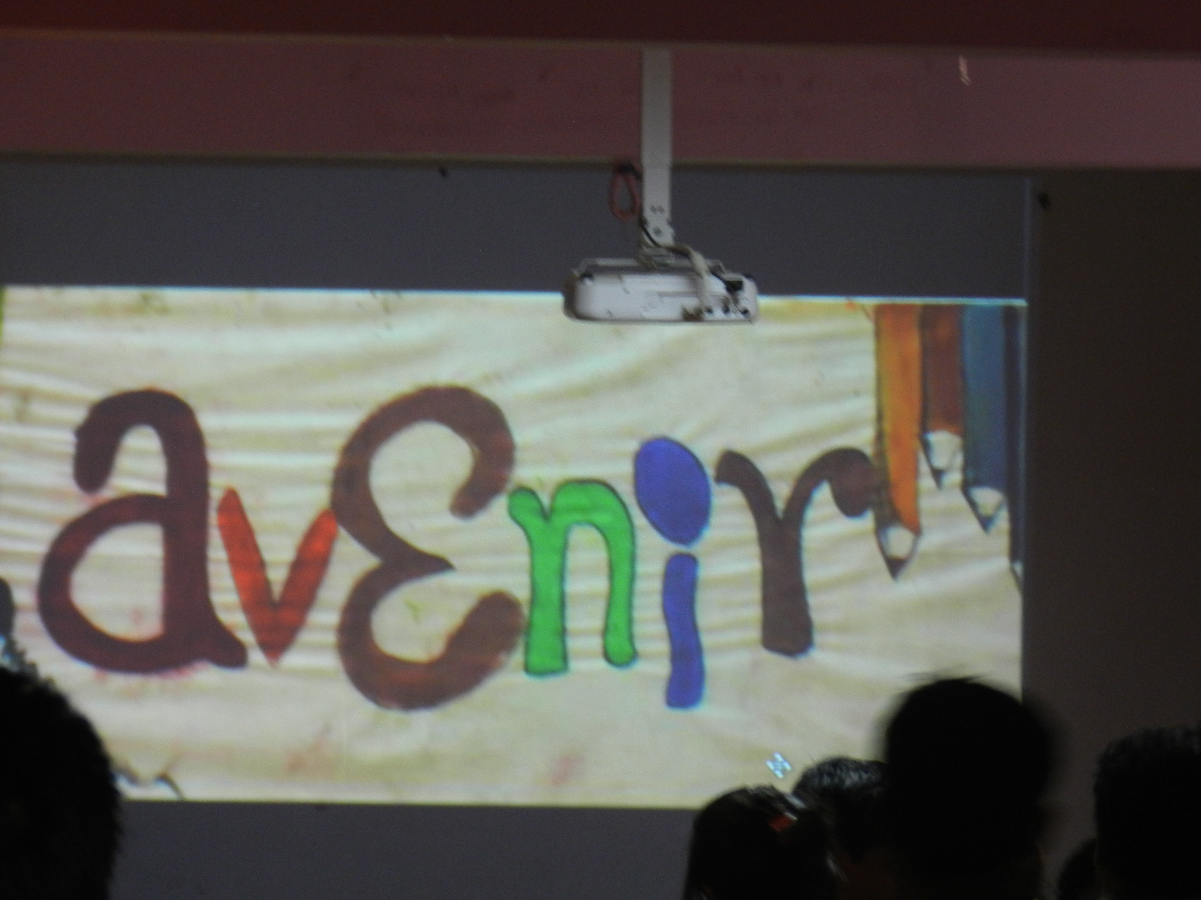 Logo of Avenir